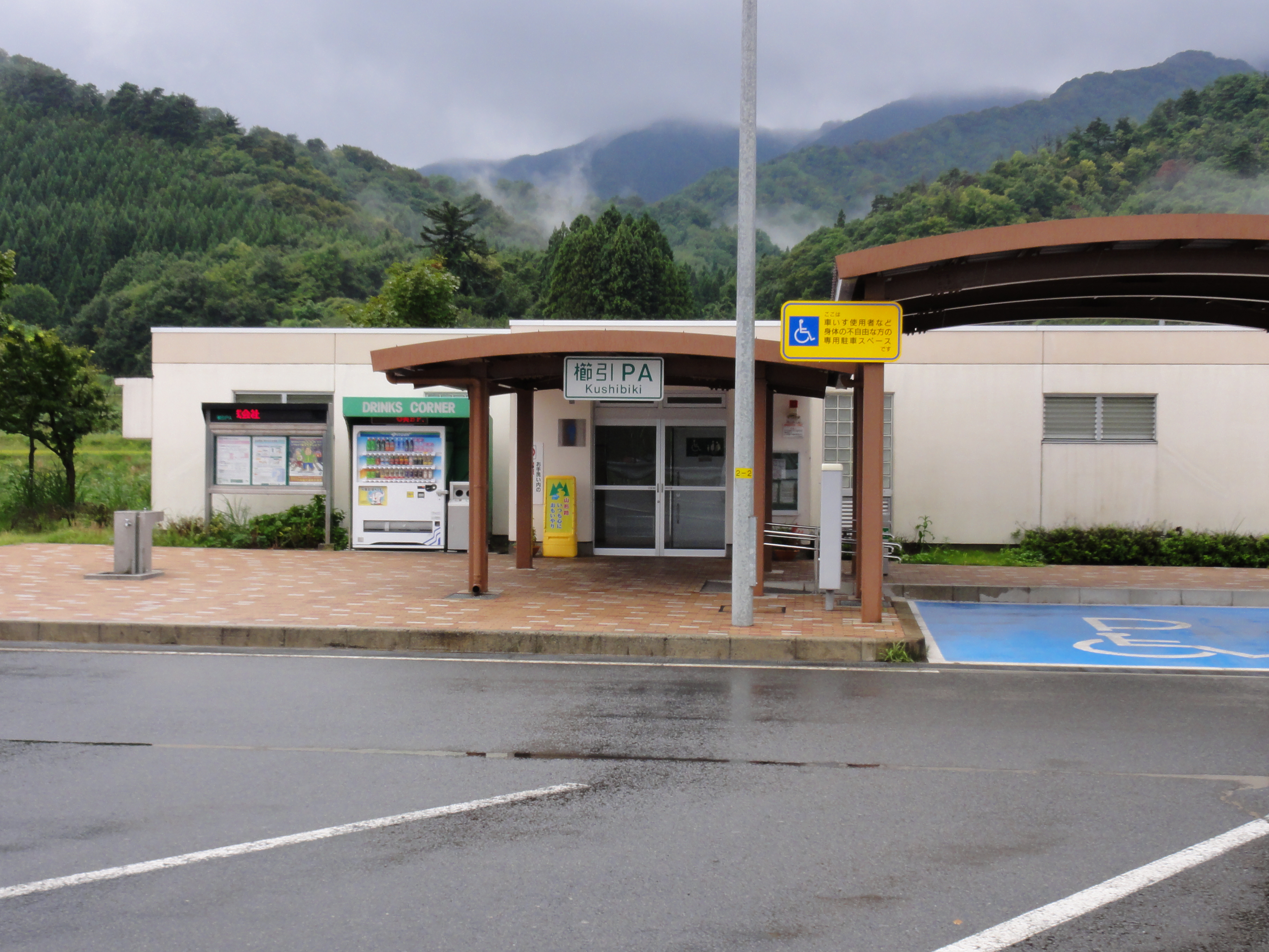 Kushibiki Parking Area, Yamagata Pref., Japan